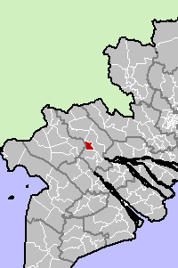 Cao Lanh City, Dong Thap Province, Vietnam.